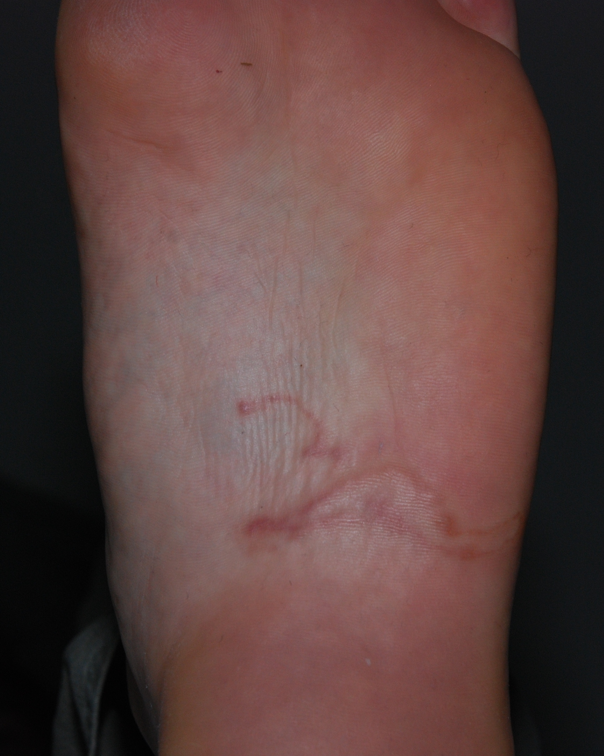 Larva migrans cutanea in the sole of foot, 8 days after infection. The starting point of the infection can be seen in the right half of the path.